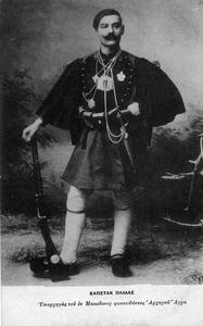 Georgios_Tiligadis